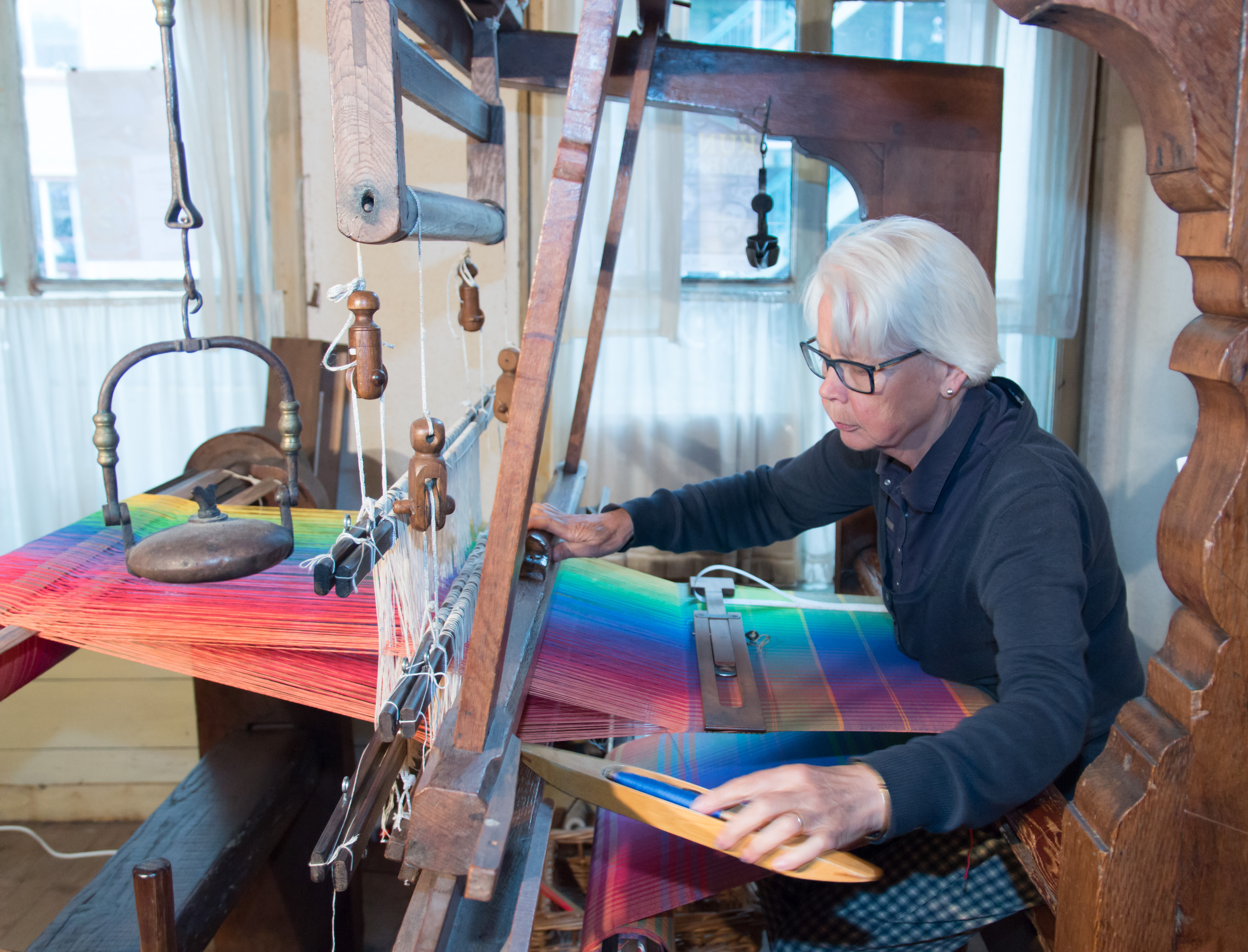 Museum guide ms. A. Fennema shows how fabric for table cloths are woven on the antique loom. A dozen volunteers keep the loom in daily operation during opening hours of the museum, weaving fabric for table cloths, which are for sale in the museum shop. Each table cloth has a unique design, which is created by the volunteer who finishes the previous cloth.